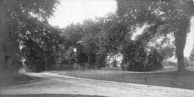 Caption on picture side of card: "Main Street looking south from Branchville Road, Ridgefield, Conn." In lower lefthand corner: "H. P. Bissell." Store Web page states: "Mailed in 1906. H.P. Bissell Photo."